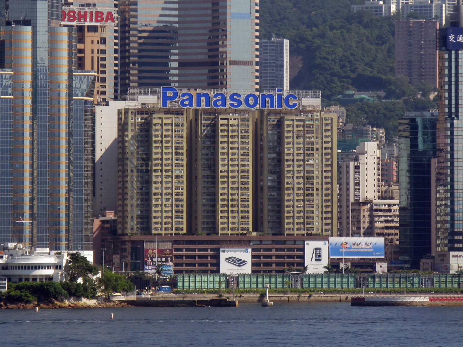 Elizabeth House, Causeway Bay